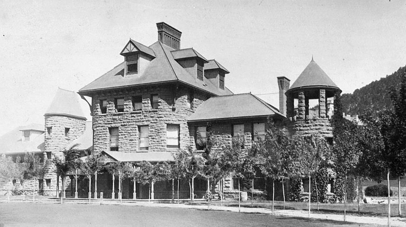 Hot Springs Lodge, Glenwood Springs, Garfield County, CO. Built ca. 1890; designed by Austrian architect Theodore von Rosenberg Photocopy of photograph (from Glenwood Springs Lodge & Pool, Inc., Date unknown) James R. Dunlap, Photographer, Date unknown EXTERIOR, FACADE OF LODGE HABS COLO,23-GLENS,1-2 URL